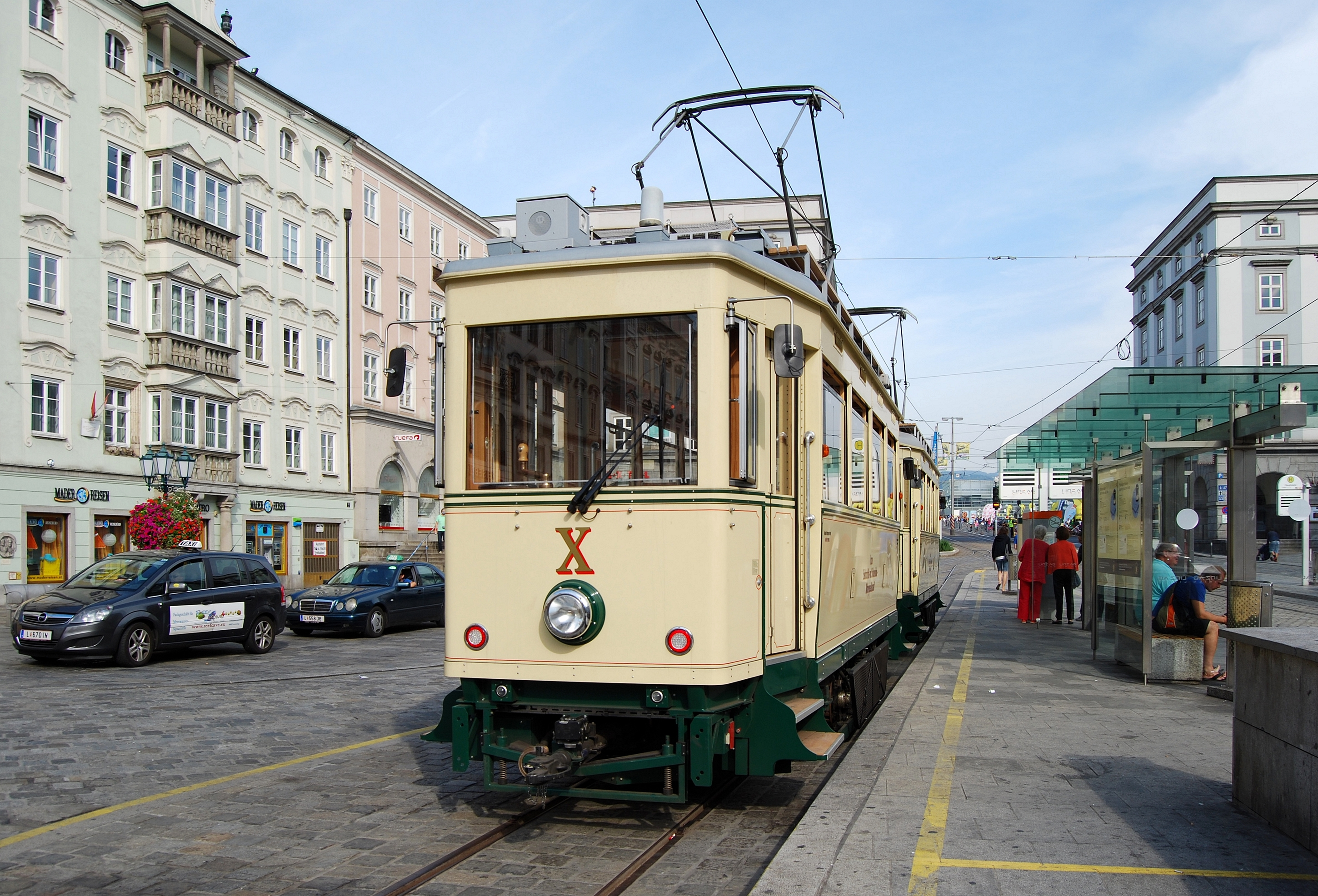 A train of Pöstlingbergbahn, a narrow-gauge electric railway, at the main square of Linz, Upper Austria.